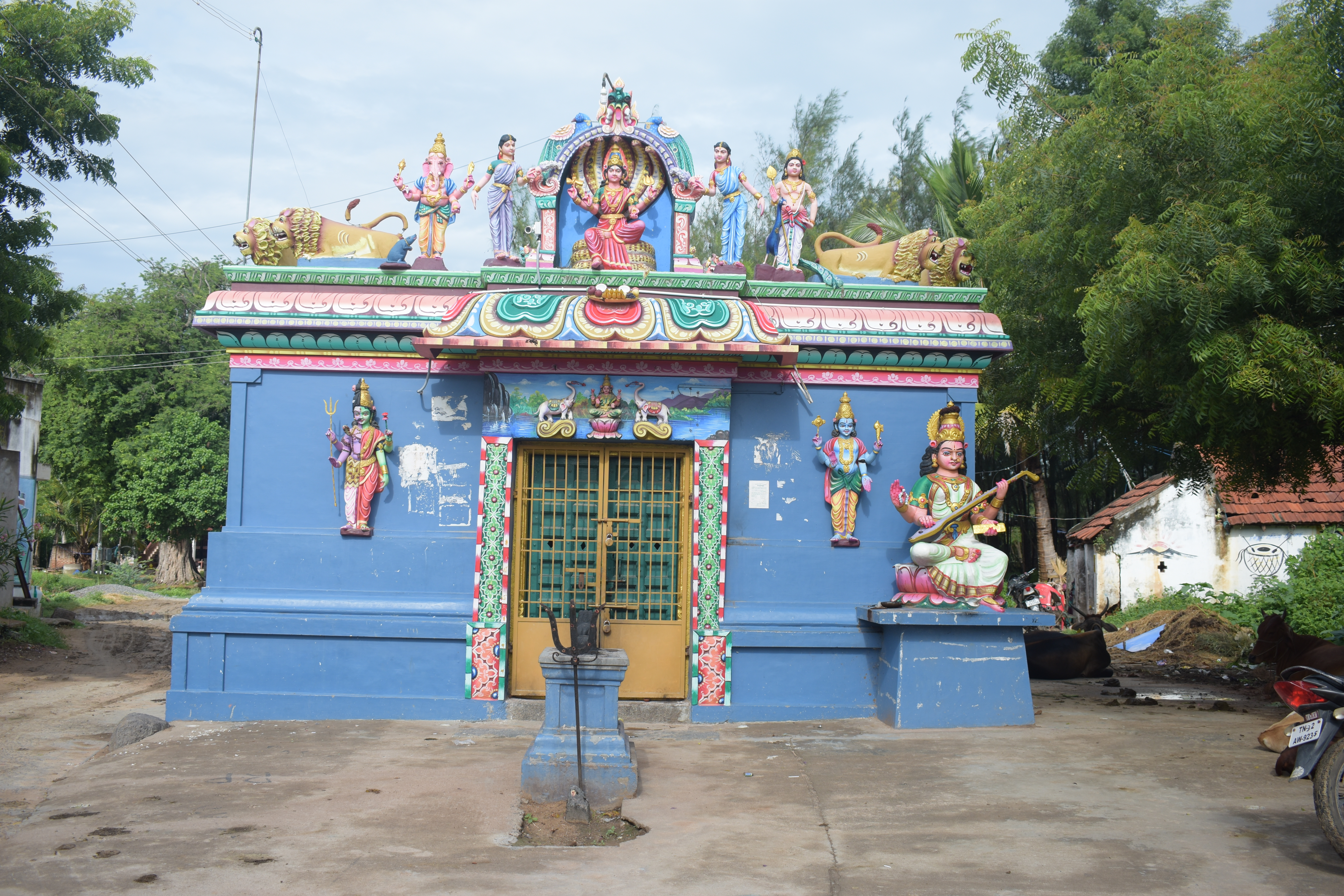 Eeswarakandanalloor Maariyamman temple